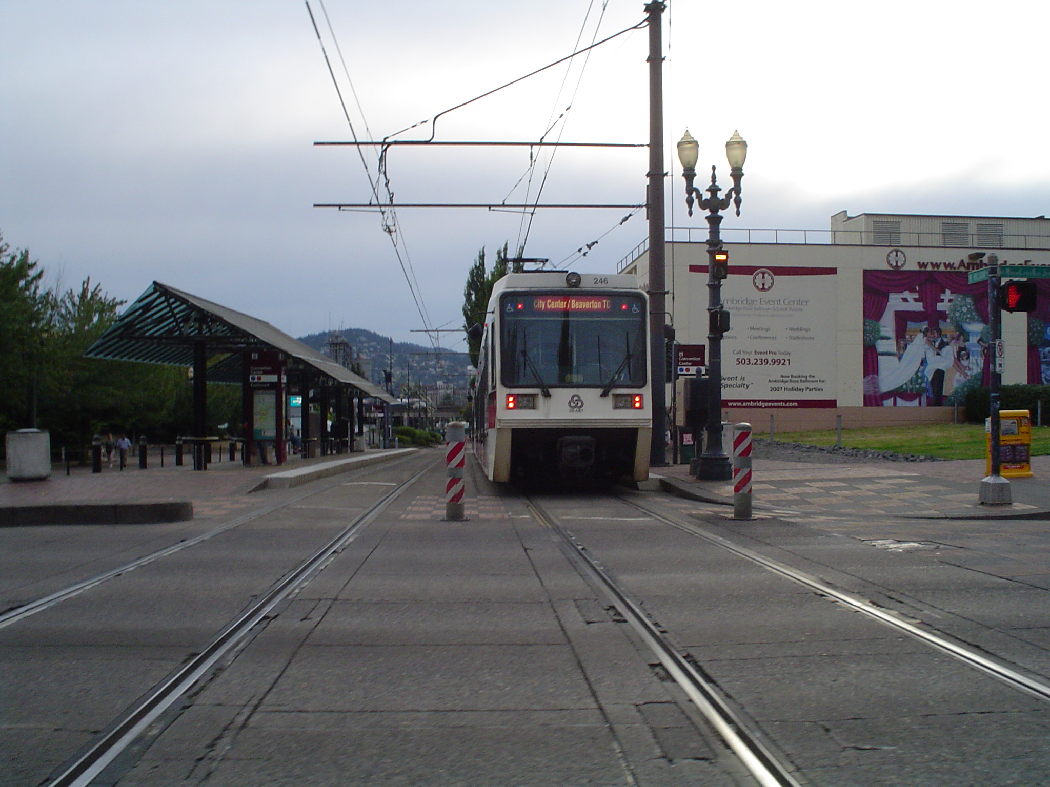 If used elsewhere, please attribute me as original photographer. -- Andrew Parodi 04:55, 29 June 2007 (UTC)